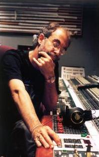 Rob Fraboni at the console